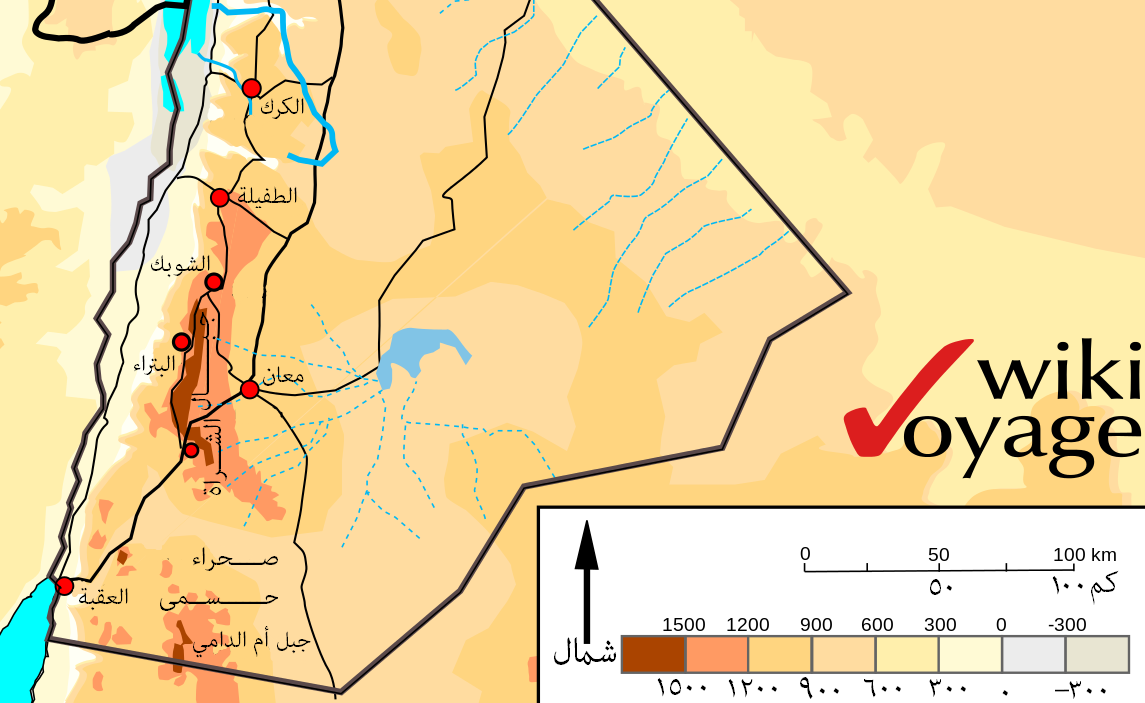 Jordan geography map in Arabic